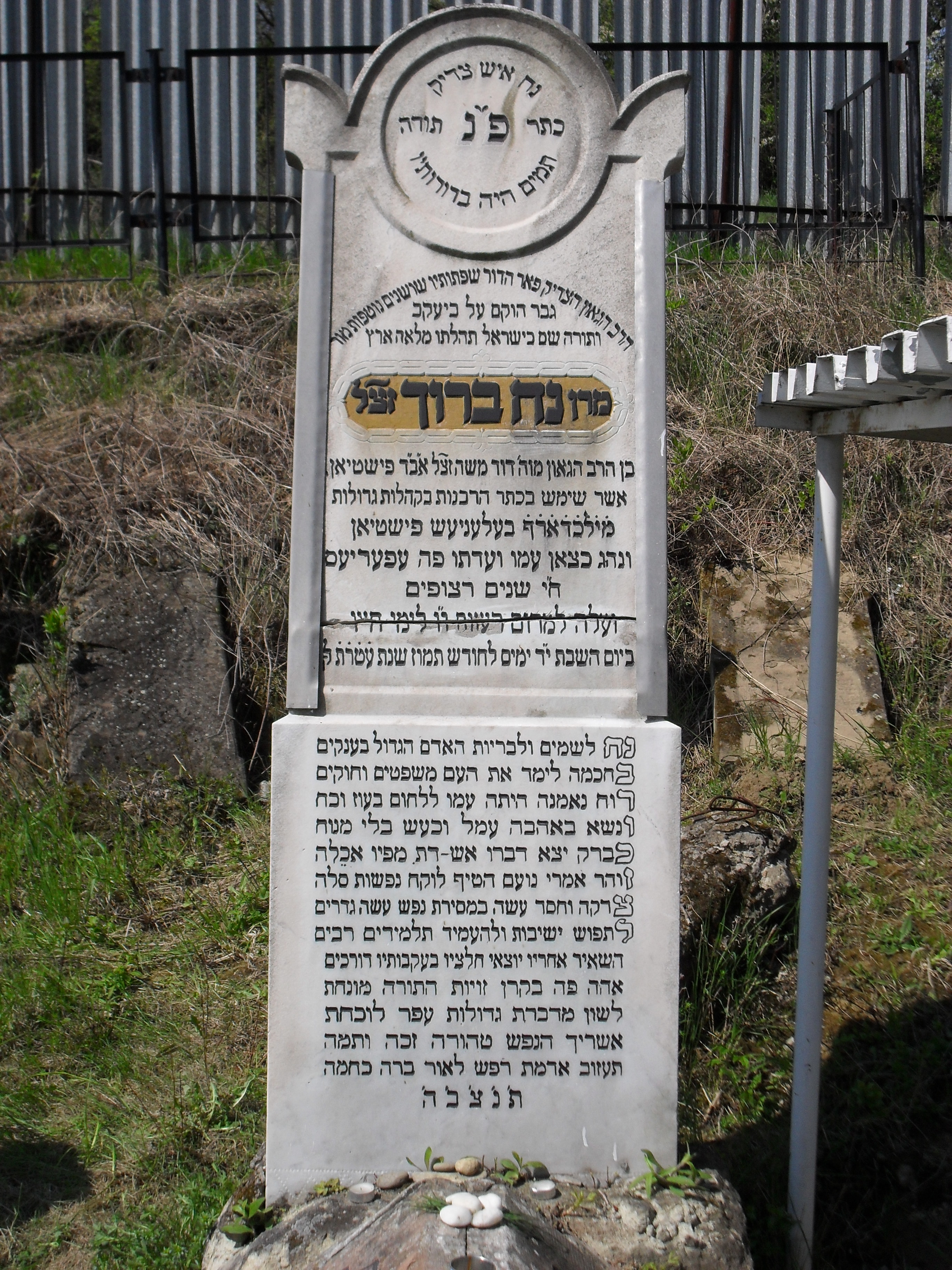 Noach Baruch Fischer - tombstoneSlovenčina: Náhrobok - rabín Noach Baruch Fischer